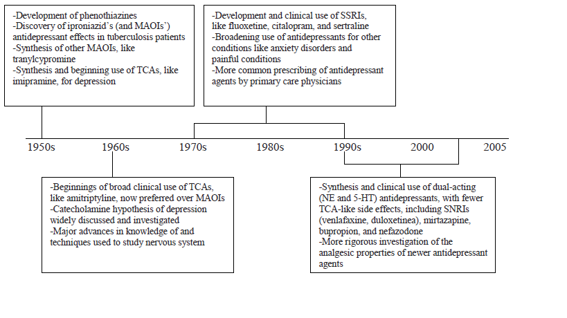 Timeline history for antidepressants